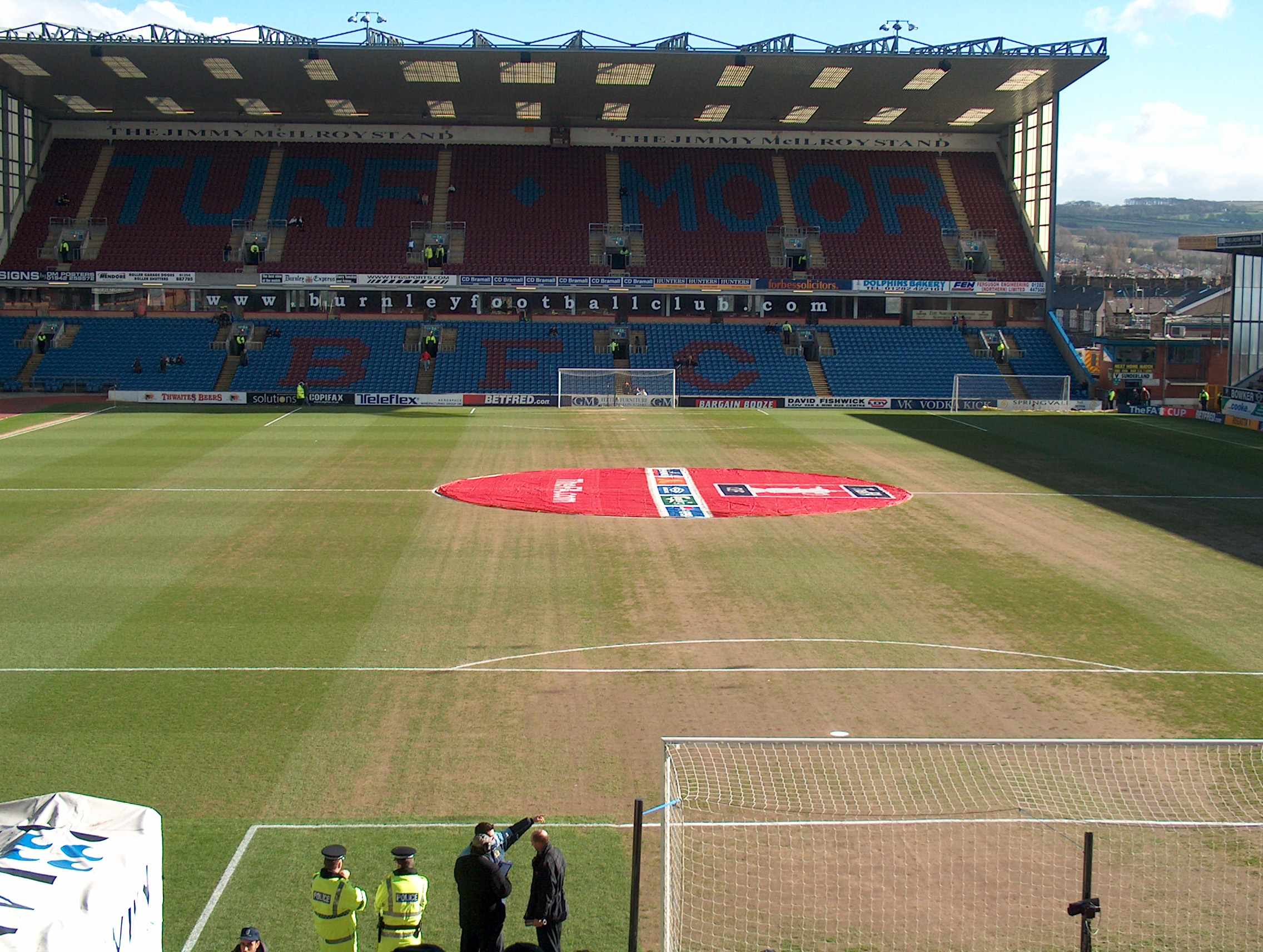 The Jimmy McIlroy Stand, Turf Moor Home of Burnley FC.